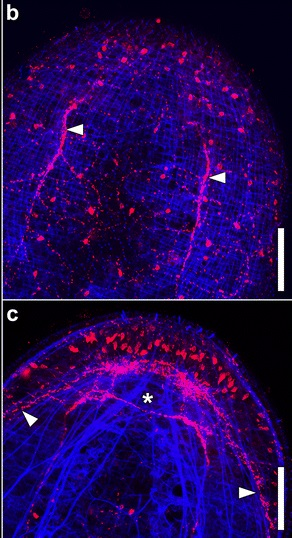 CLSM projections showing muscles (blue) and serotonin-like immunoreactive nervous system (red) in dorsal (b) and central (c) planes of a mature Isodiametra pulchra. White arrowheads point to neurite bundles, asterisk marks the position of the statocyst. Scale bars: 50 μm